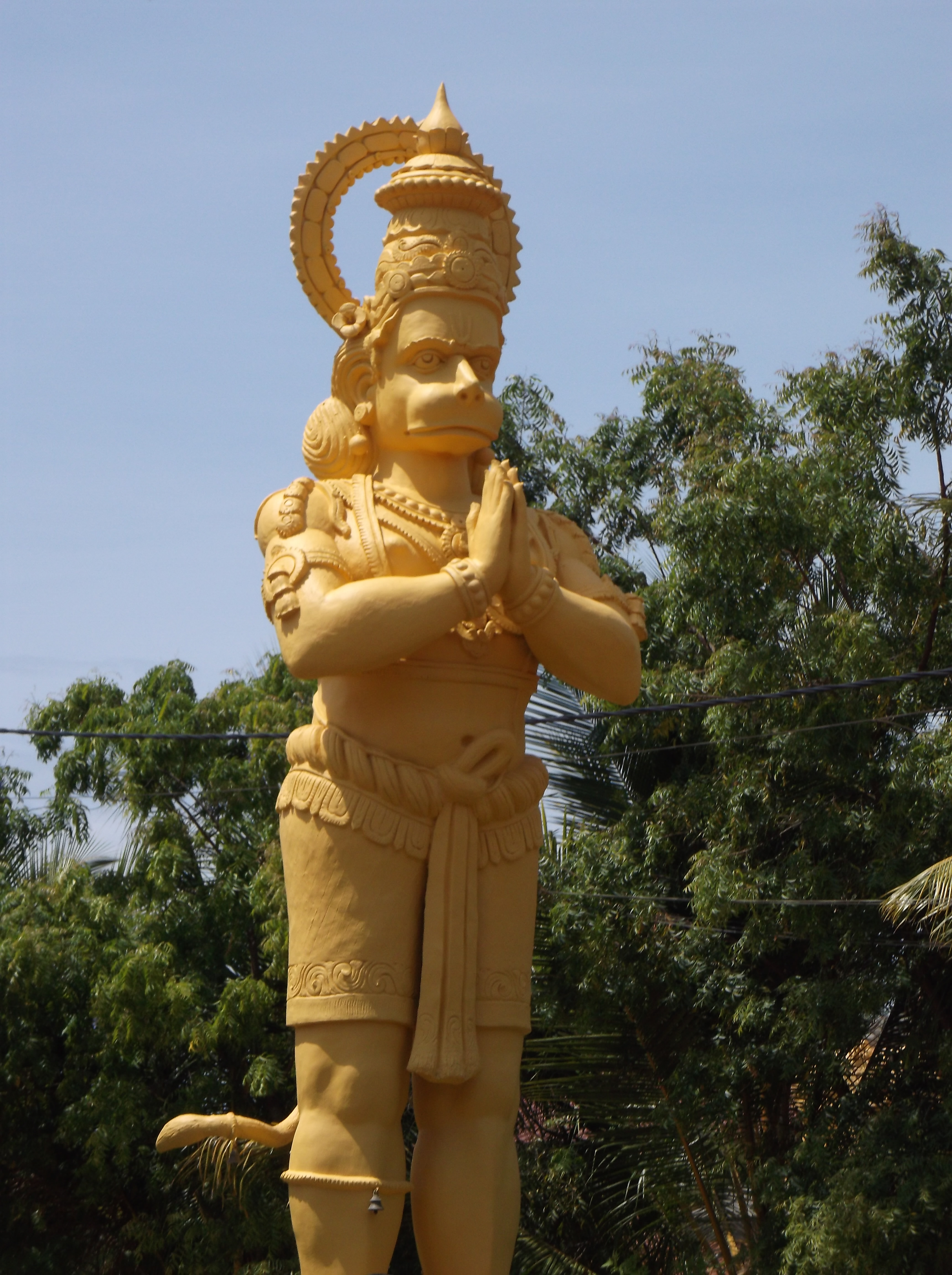 Hanuman statue at Mailampavali meenadshi alayam